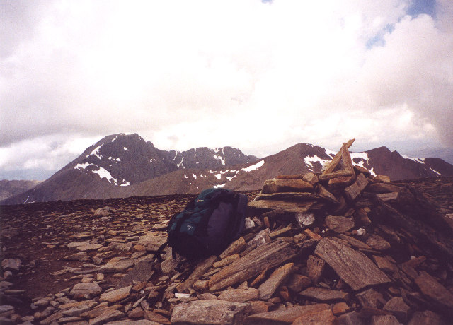 The summit cairn on Aonach Beag. Looking west to Ben Nevis.